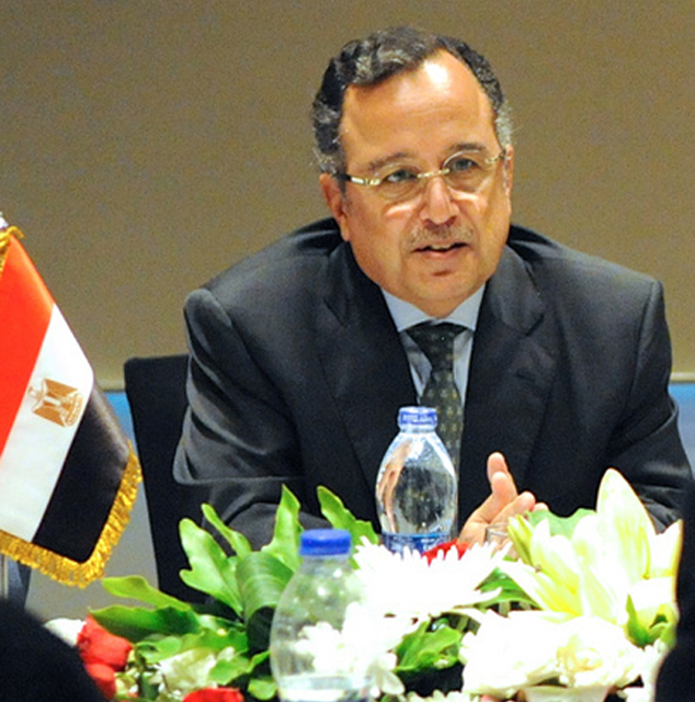 Egyptian Minister of Foreign Affairs Nabil Fahmi.